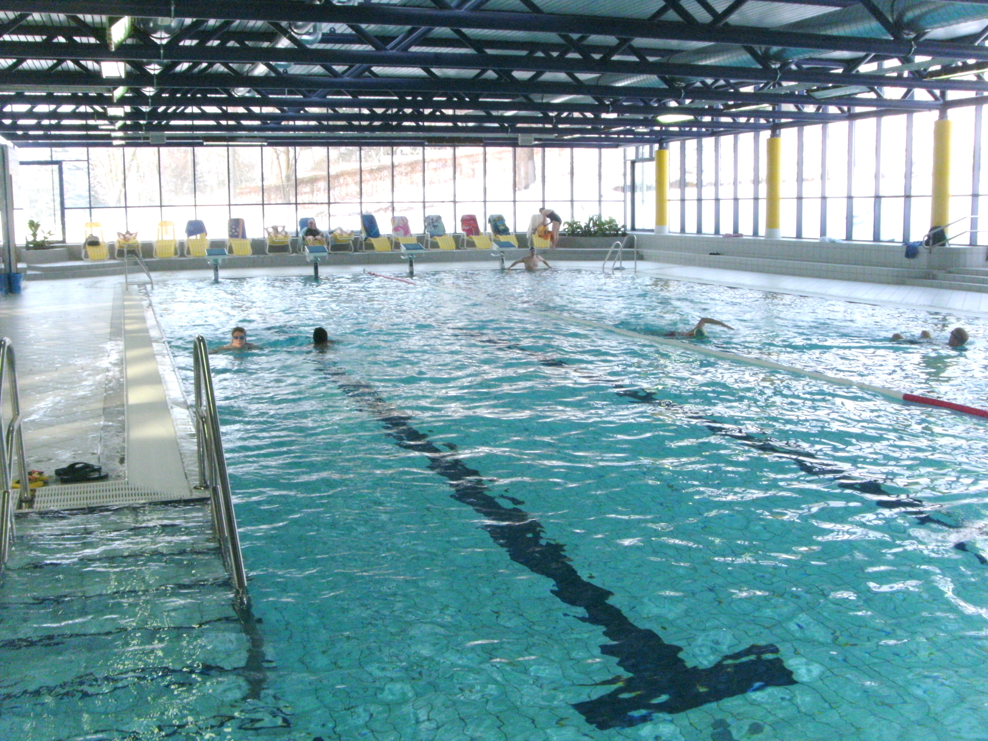 Competition basin of Huetteldorf indoor swimming pool, Vienna's 14th district